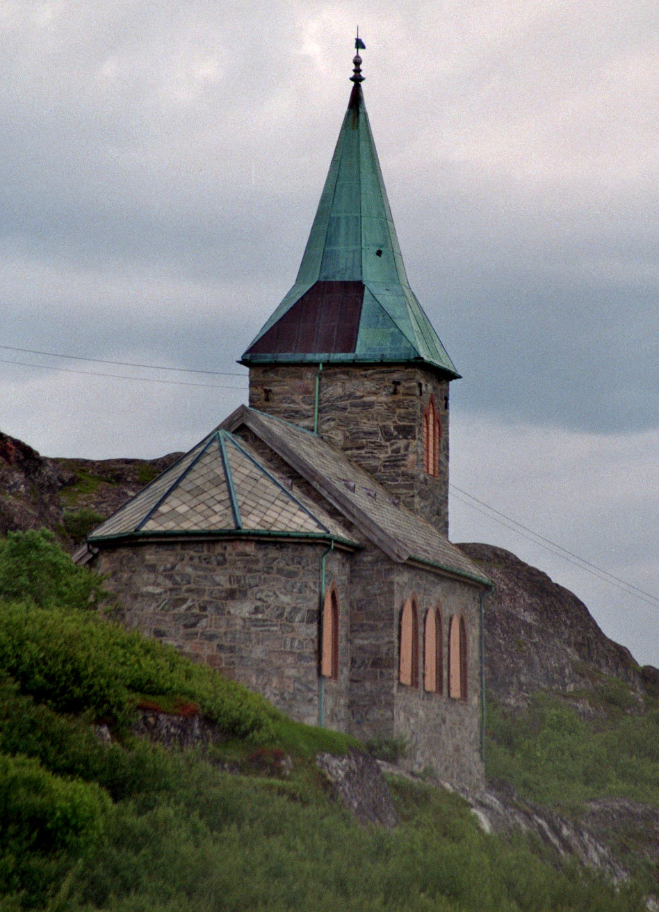 Kong Oscar IIs kapell in Grense Jakobselv in Sør-Varanger in Finnmark in Norway